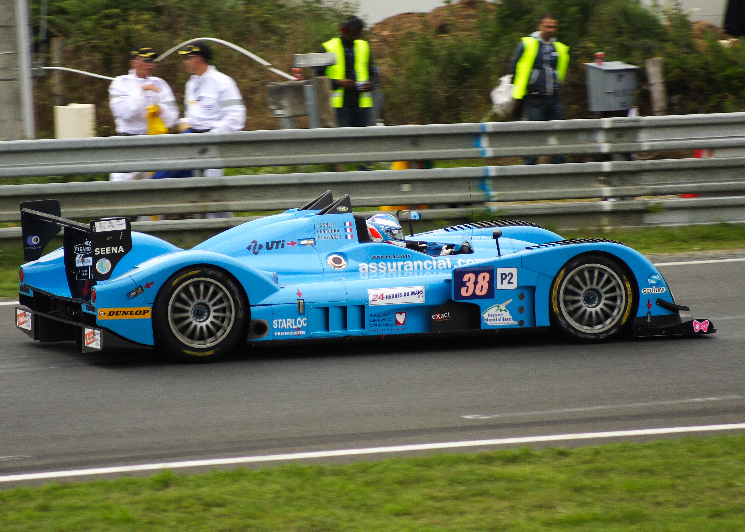 Le Mans 24 Hour Race 2010 Pegasus Racing Norma M200-Judd